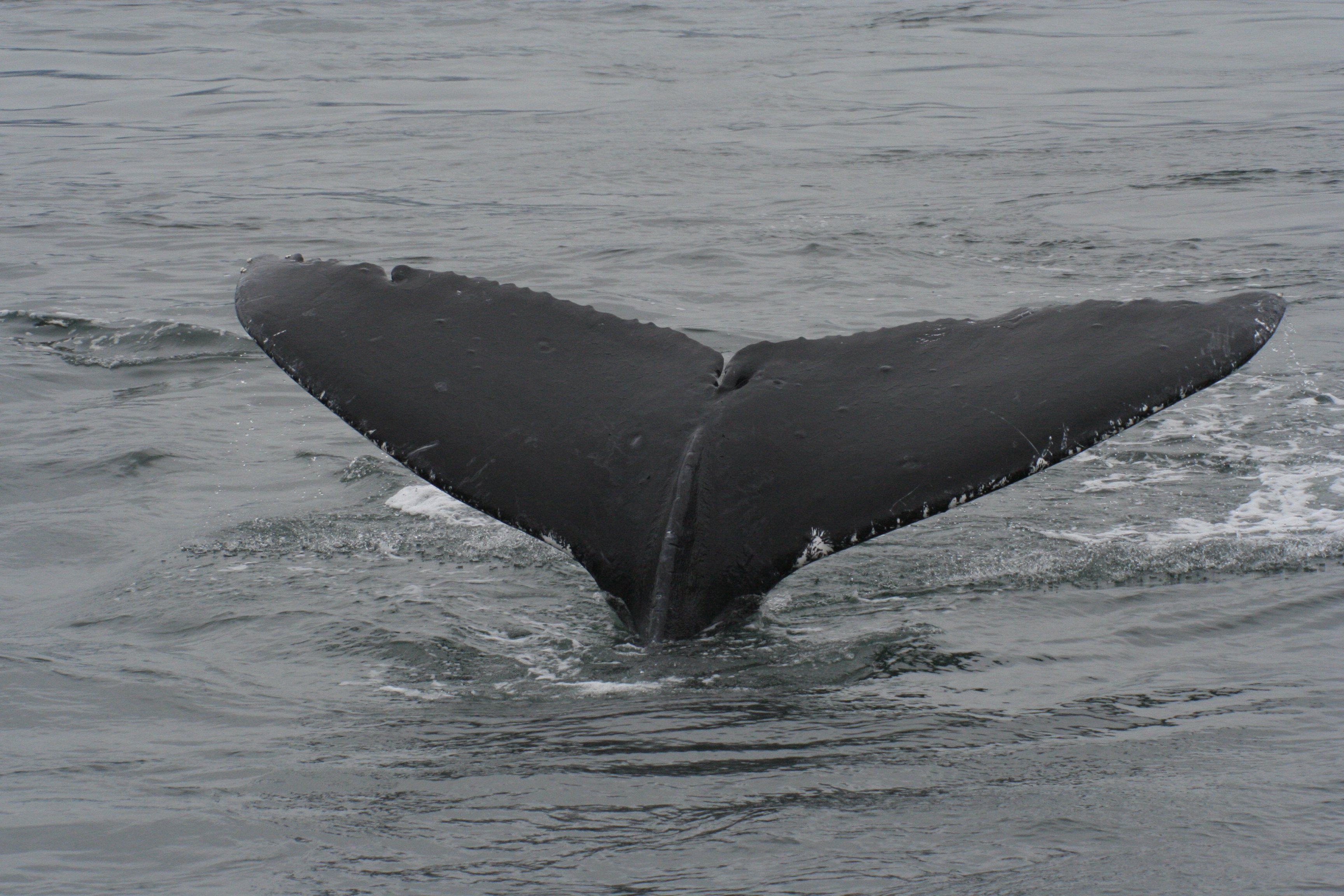 A Humpback Whale fluke.